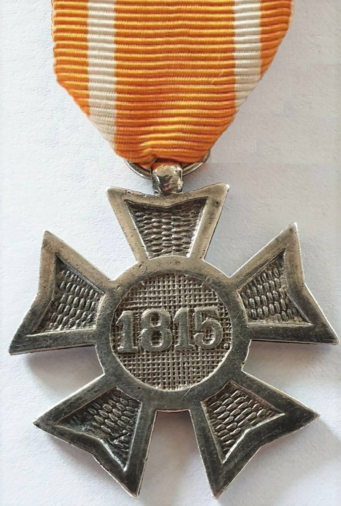 Dutch Silver Memorial Cross for Napoleonic Wars, 1813-15, reverse. Founded in 1865.